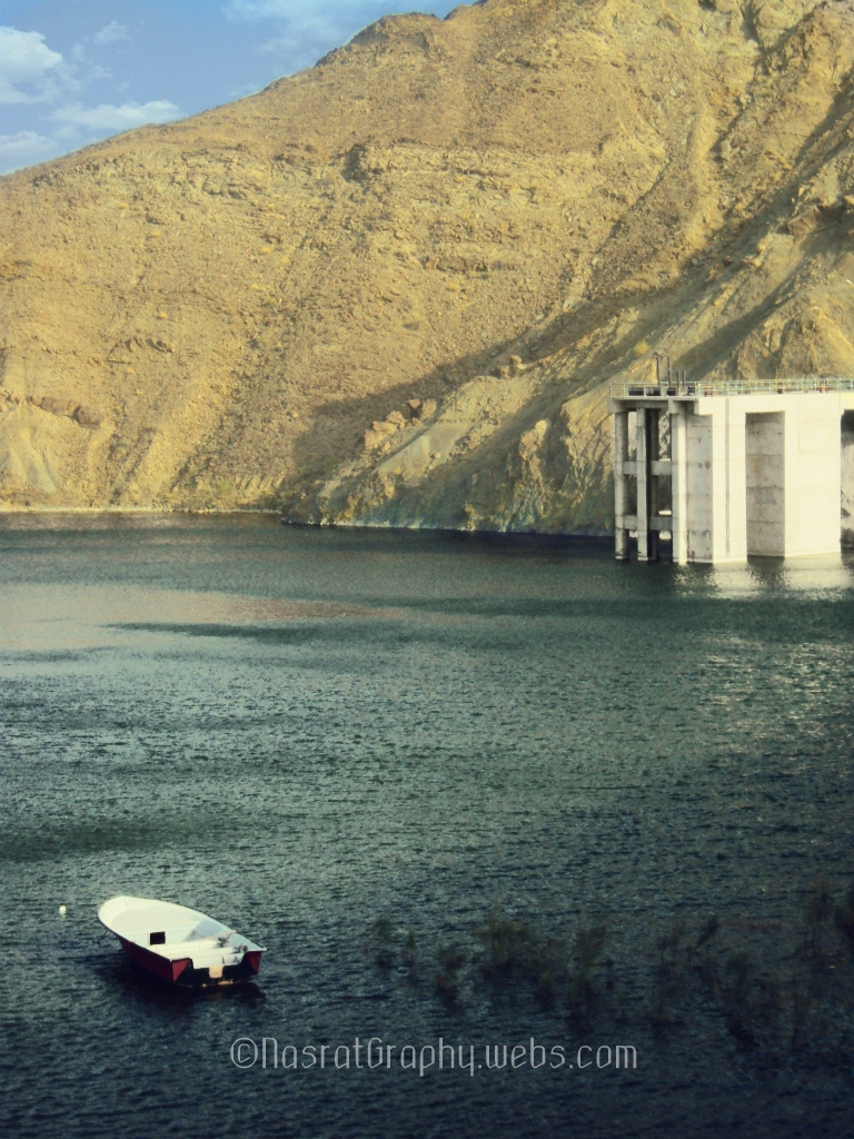 Mirani Dam (Urdu: میرانی) is a medium-size multi-purpose concrete-faced rock-filled dam located on the Dasht River south of the Central Makran Range in Kech District in Balochistan province of Pakistan. Its 302,000 acre feet (373,000,000 m3). reservoir is fed by the Kech River and the Nihing River.[2] Mirani Dam was completed in July 2006 and it impounded the Dasht River in August 2006. It successfully withstood an extreme flood event in June 2007.[3] The dam is used for irrigation of 33,200 acres in Kech Valley and for the supply of clean drinking water to Turbat and Gwadar.